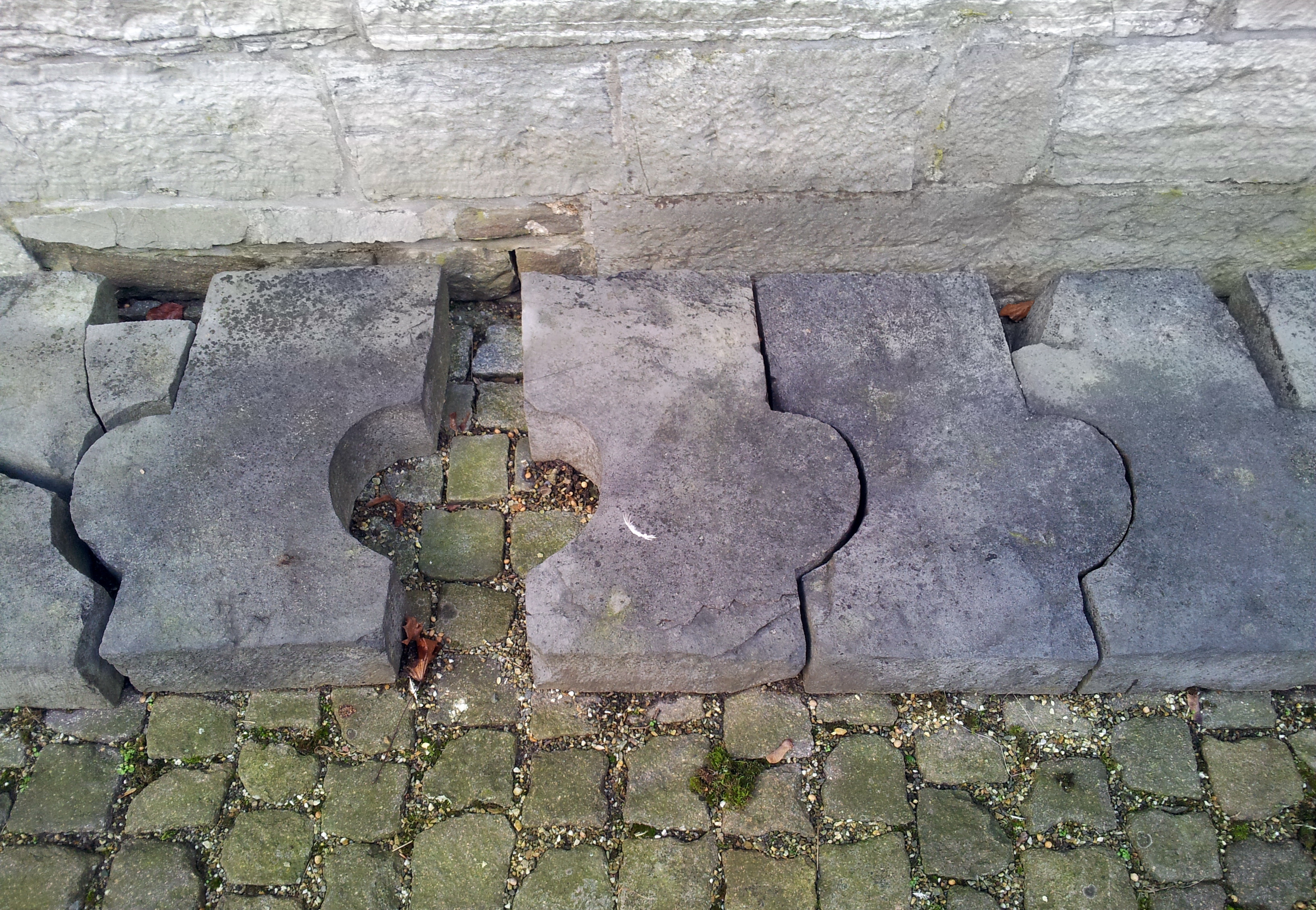 Floor tiles from the 11th-century "Double Chapel", now in the court yard of the cloisters of the Basilica of Saint Servatius in Maastricht, the Netherlands.